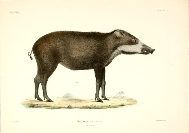 Banded pig illustration